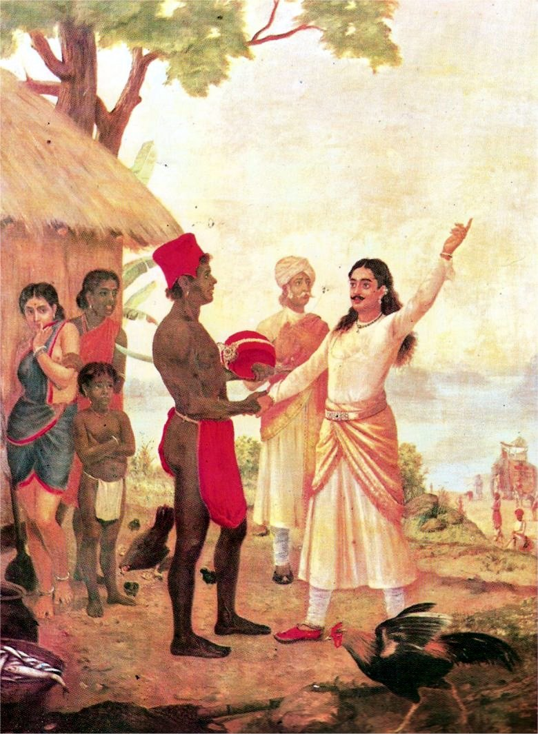 Bhishma taking oath, on abdicating his right to the throne, in order to get the fisher girl married to his father Shantanu.